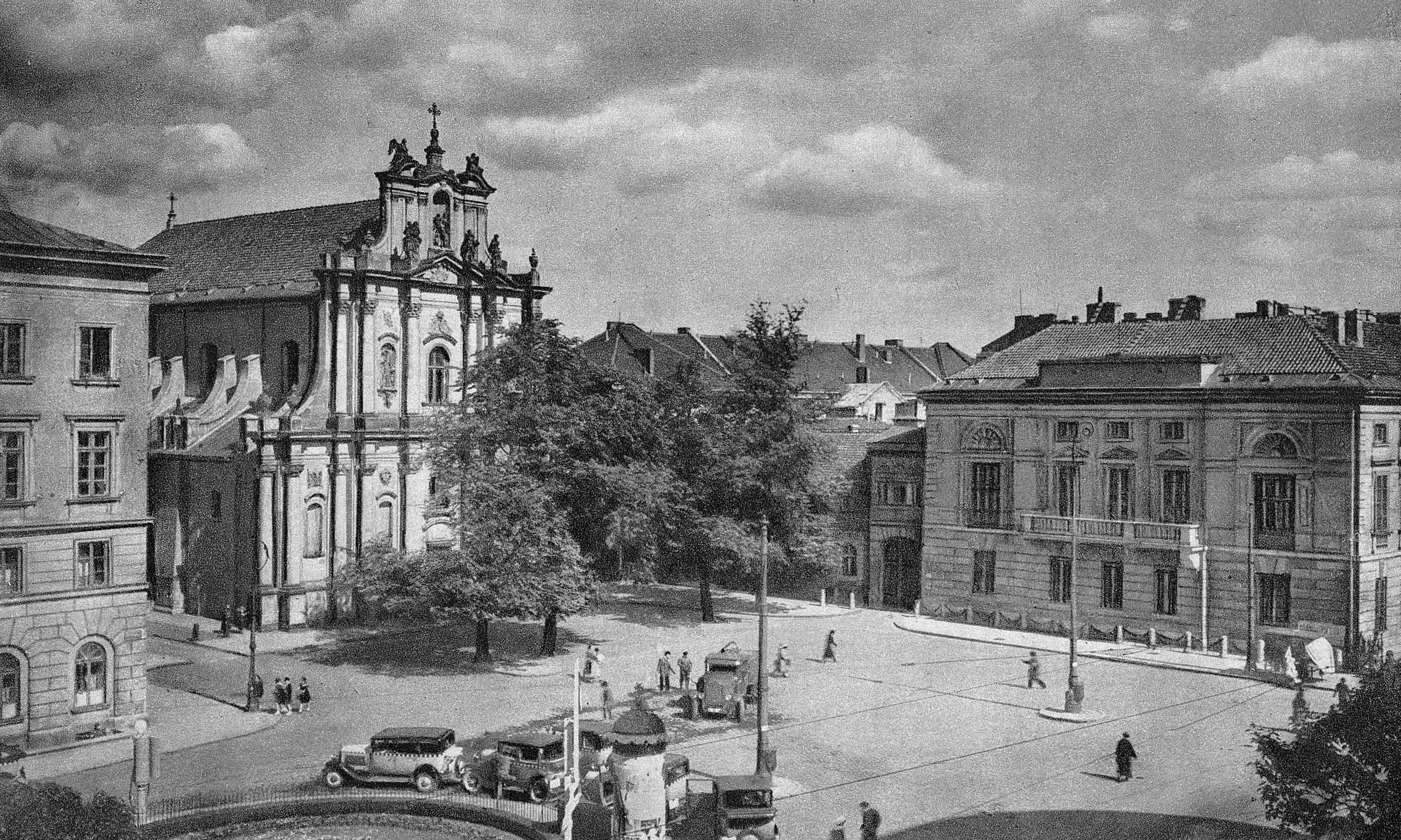 Visitation Order church in Warsaw